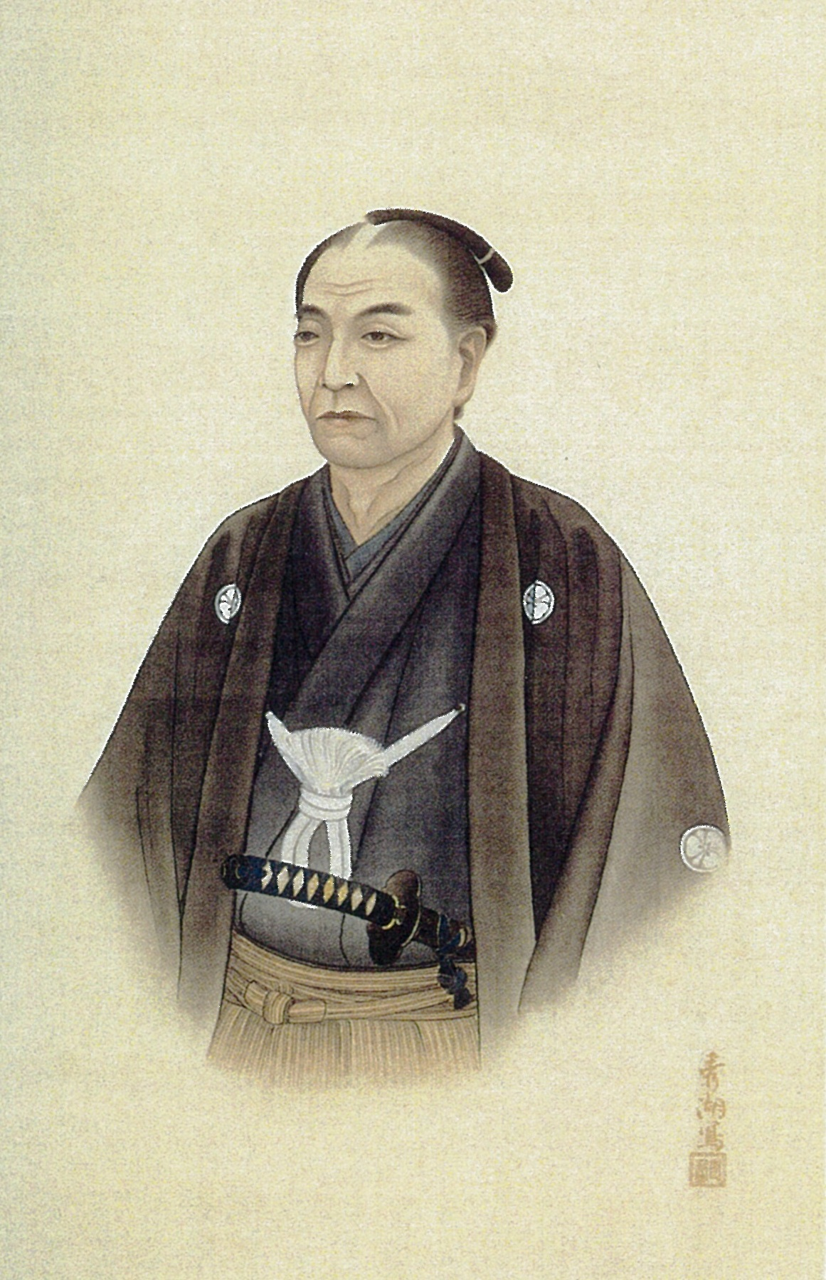 Portrait of Nagano Yoshitoki(aka Nagano Shuzen) who is Jpanese Kokugaku scholar of the end of Edo period.